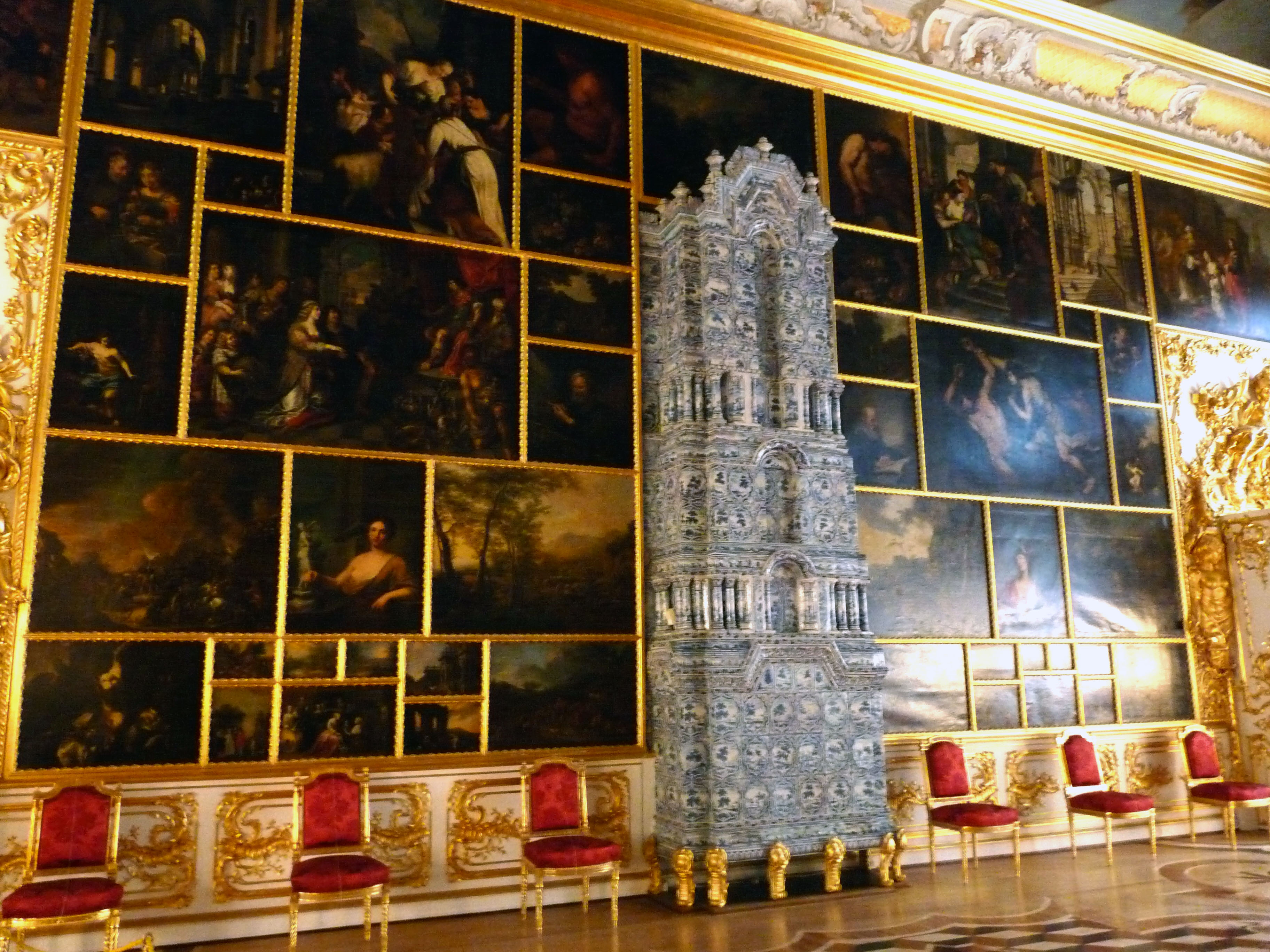 Catherine Palace 19 Gallery